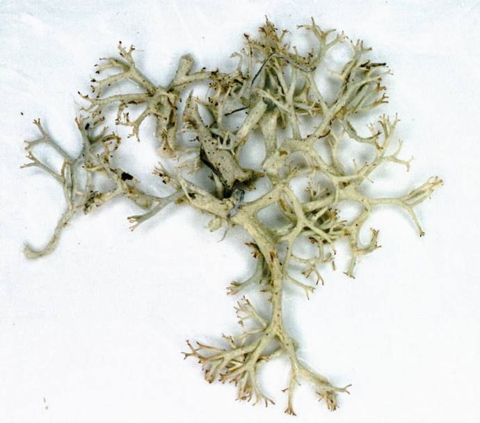 Cladonia mitis Sandst., 1918 Photograph of a herbarium specimen. Cladonia mitis was growing on soil at Milbridge Cemetery along Route 1A in Milbridge, Washington County, Maine, USA (Lat. 44o31.353' N, Long. 67o53.787' W). Collected by E.C. Uebel, identified by Dr. David H.S. Richardson (No. U-215, 12 Jun 2001).